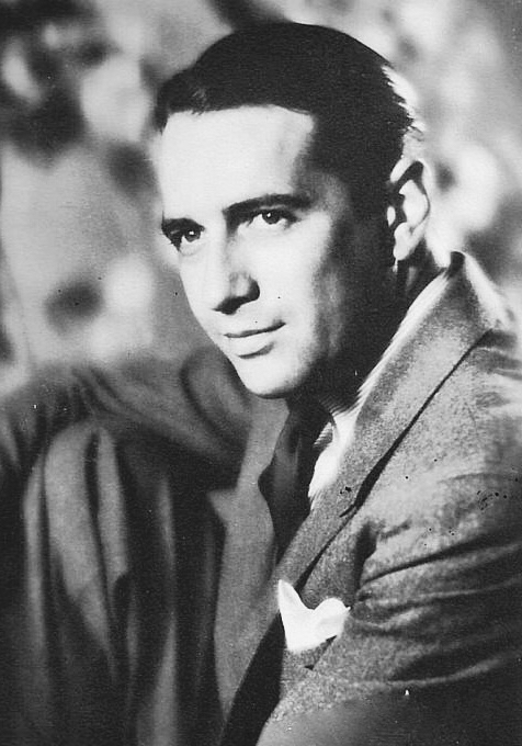 Donald Cook in a Columbia Studios promotional photo